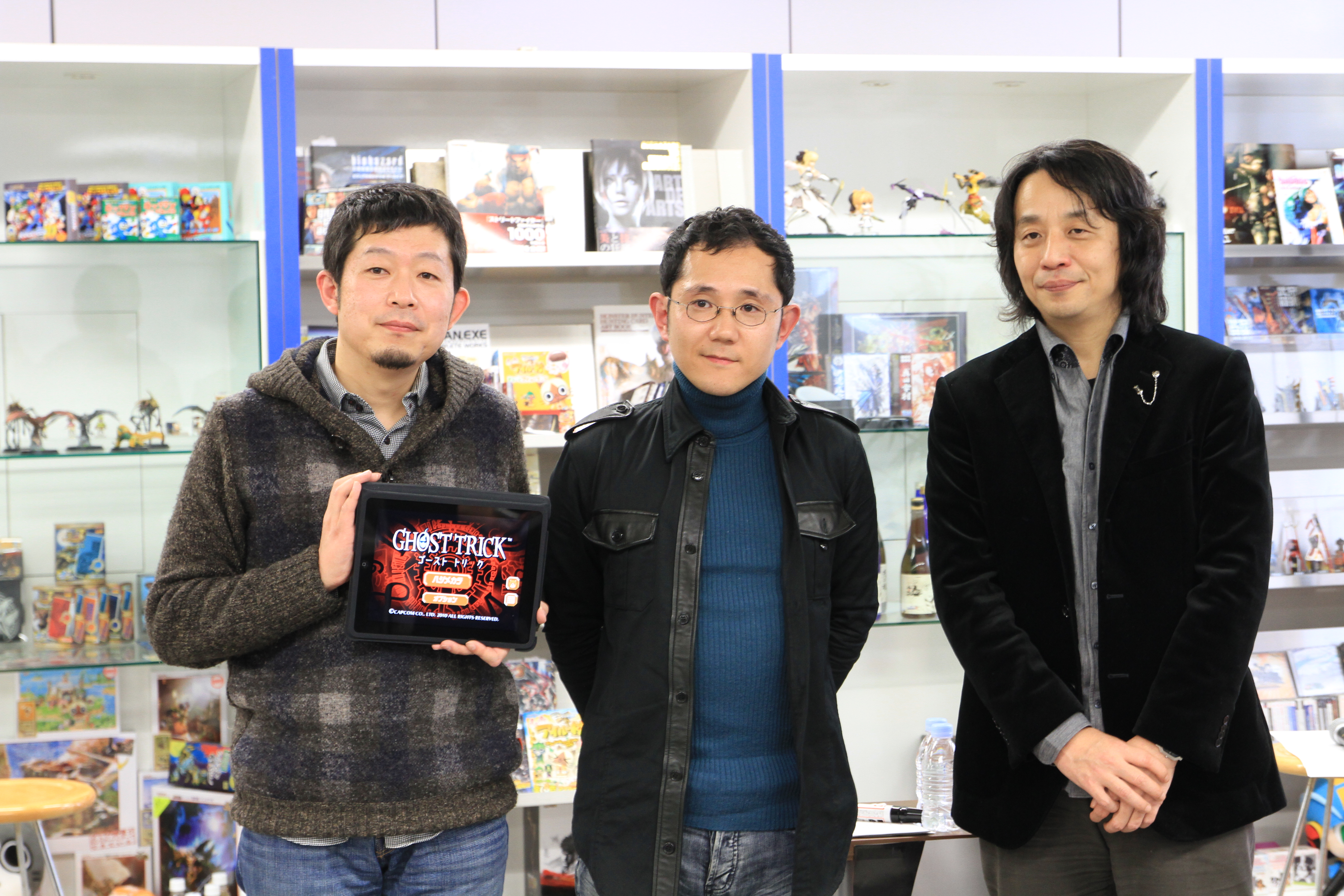 A Capcom event for their video game Ghost Trick: Phantom Detective. From left to right, producer Hironobu Takeshita (竹下 博信), director Shu Takumi (巧 舟), and writer Arisu Arisugawa (有栖川有栖).